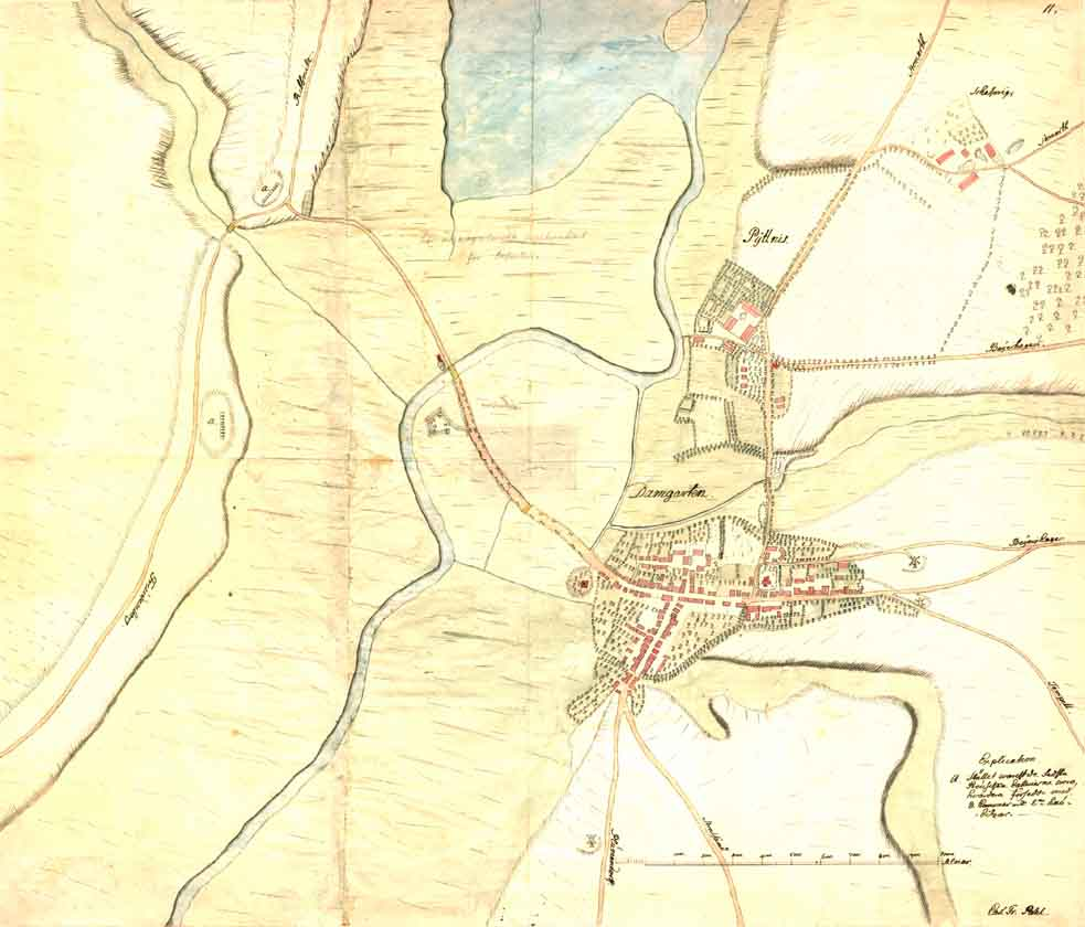 Citymap of Damgarten